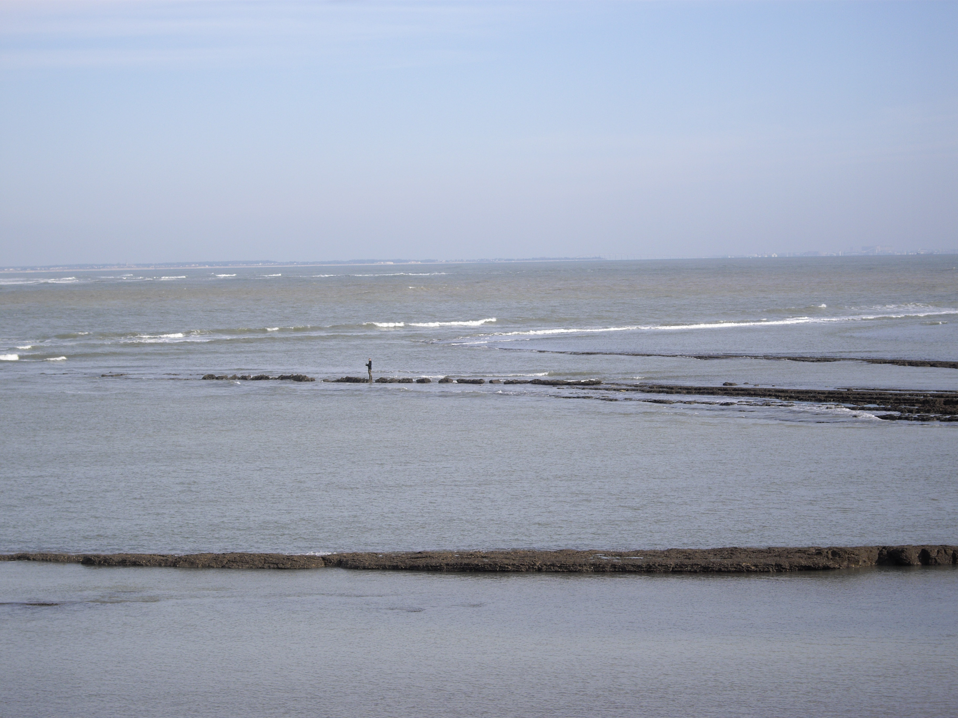 Fisherman at the tip of Chassiron, Île d'Oléron, France on a fish lock discovered by tide